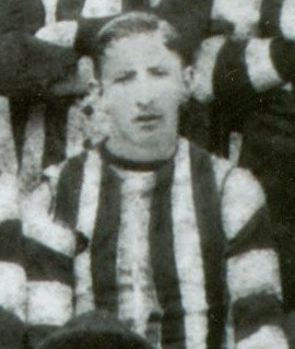 Photograph of Denis Lanigan in 1895.